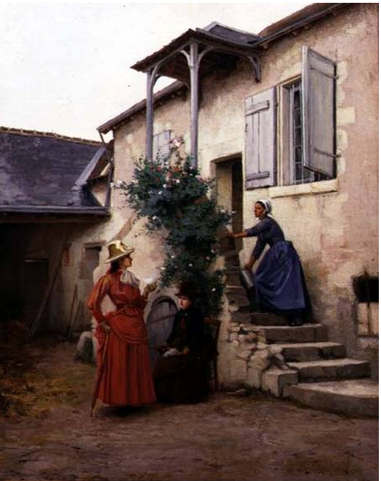 Deux femmes dans une cour, oil on canvas by Euphémie Muraton